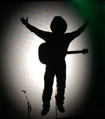 silhouette of Garth Brooks from World Tour